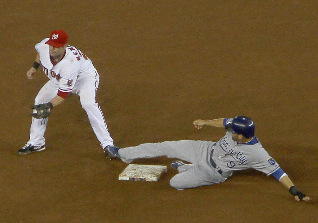 Kansas City Royals right fielder David DeJesus (right) sliding into second base ahead of Washington Nationals second baseman Adam Kennedy.